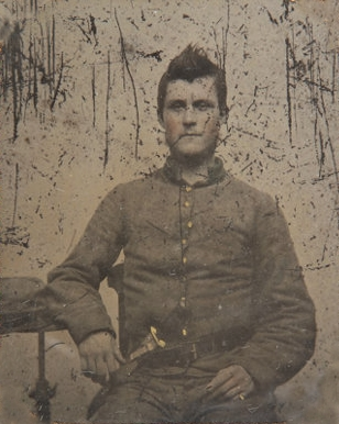 Sixth Plate Ambrotype identified as David W. Thornton, 61st Virginia Infantry